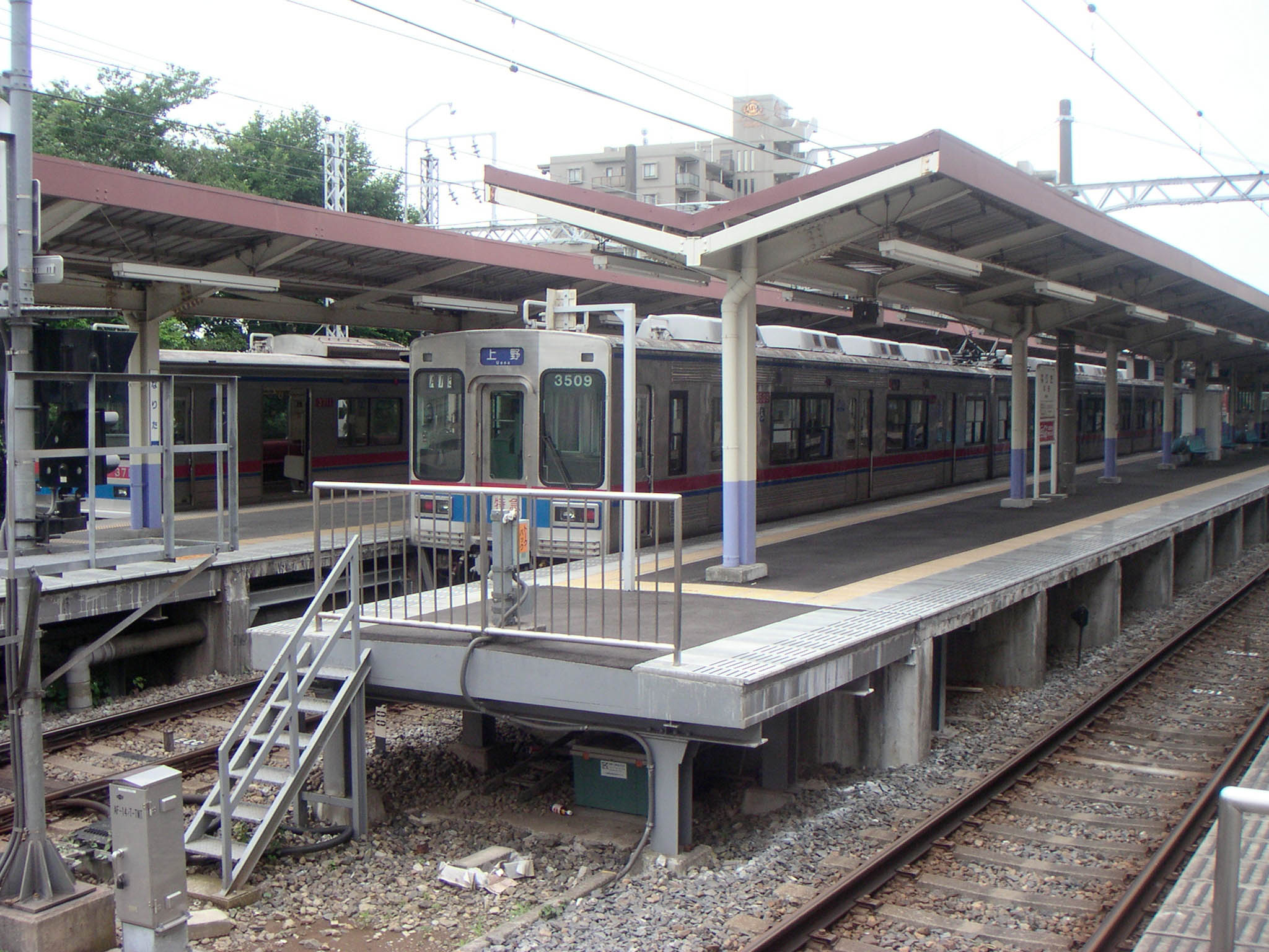 Platform of Keisei-Narita Station